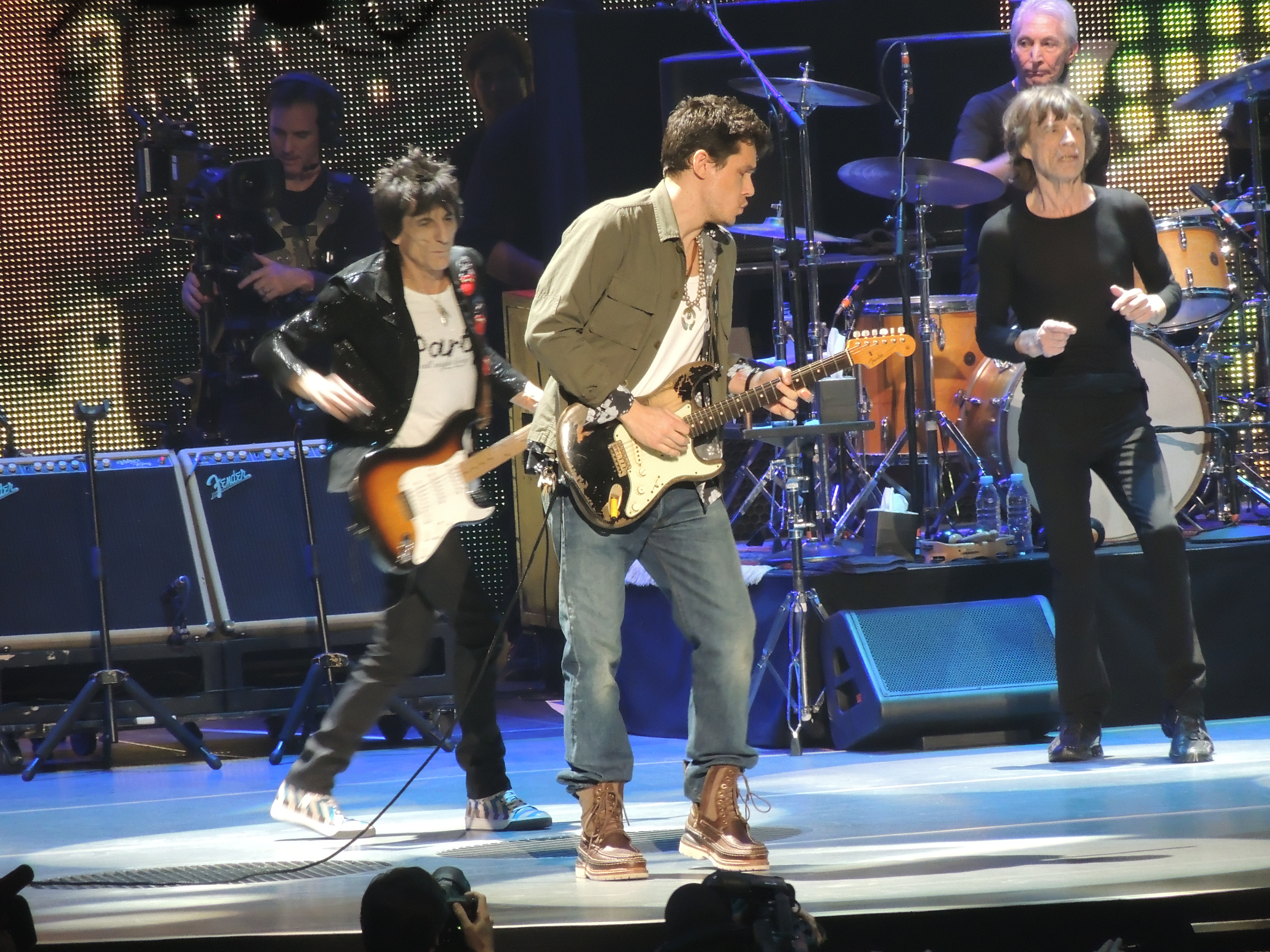 The Rolling Stones with John Mayer at the Prudential Center on 2012-12-13